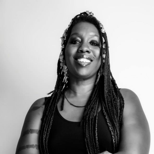 Durga McBroom in the Summer of 2015, in Rome